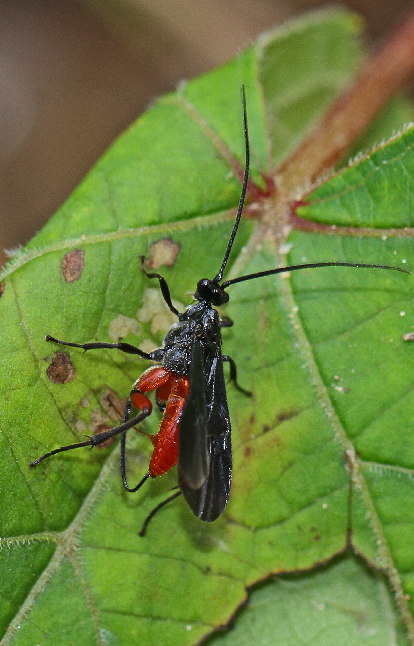 Braconid Wasp - Alabagrus texanus, Ocmulgee boat ramp, Juliette, Georgia